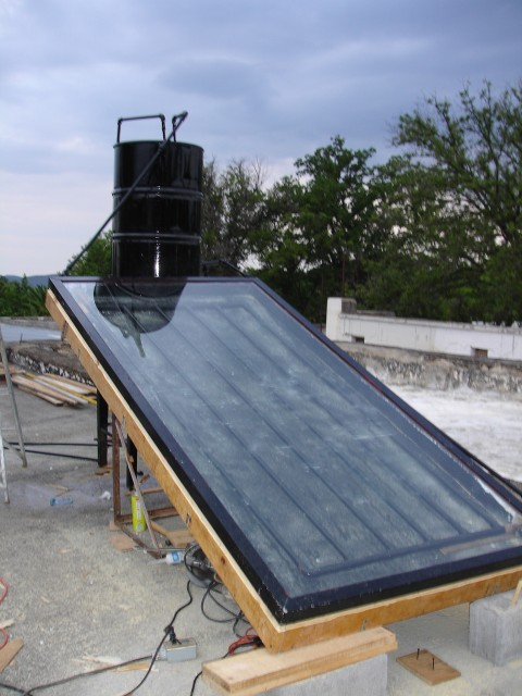 Closed Loop Passive System in Parras de la Fuente, Coahuila Mexico - The black barrel is an insulated heat exchanger